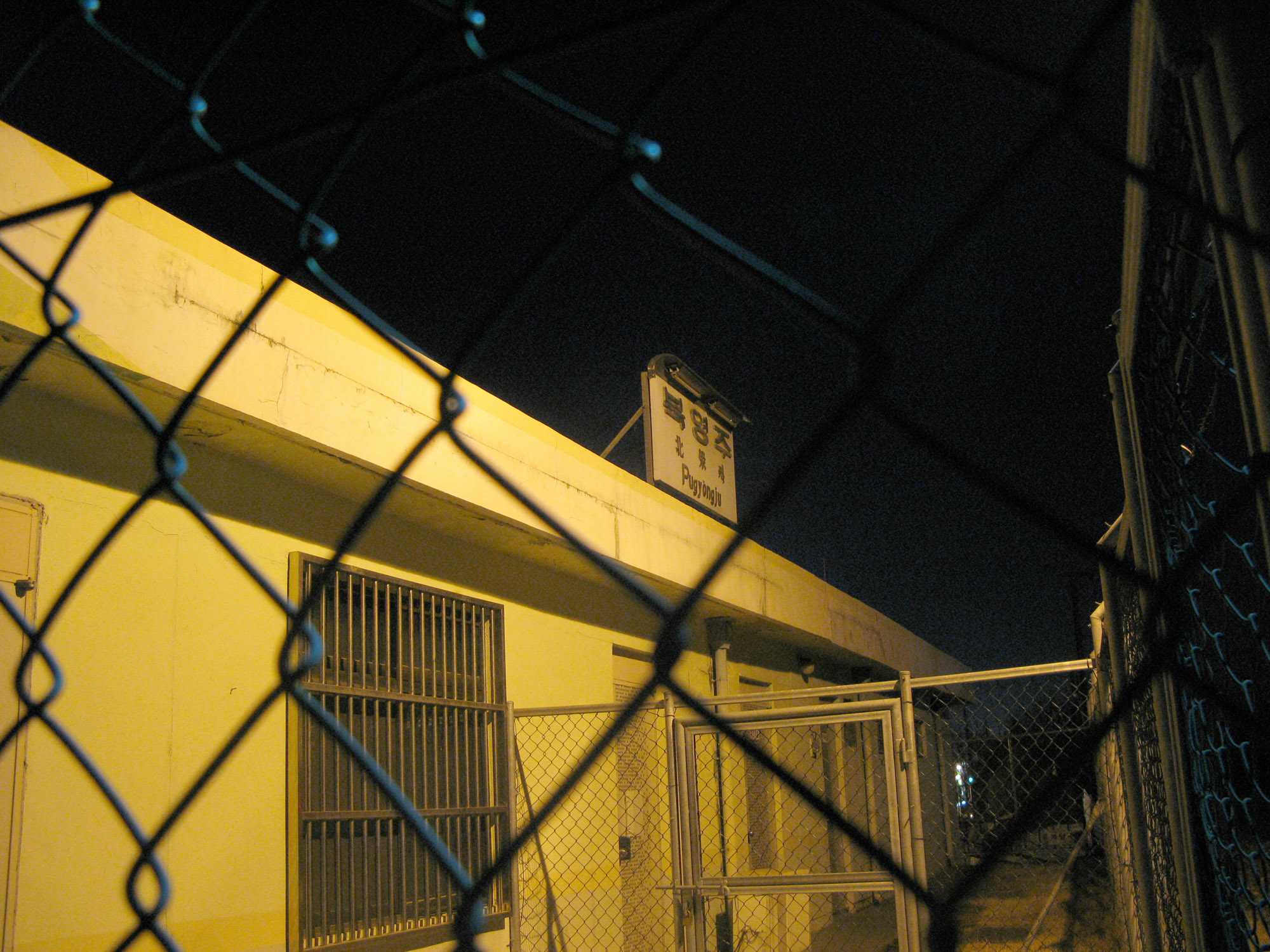 Yeongdong Line Bukyeongju Station